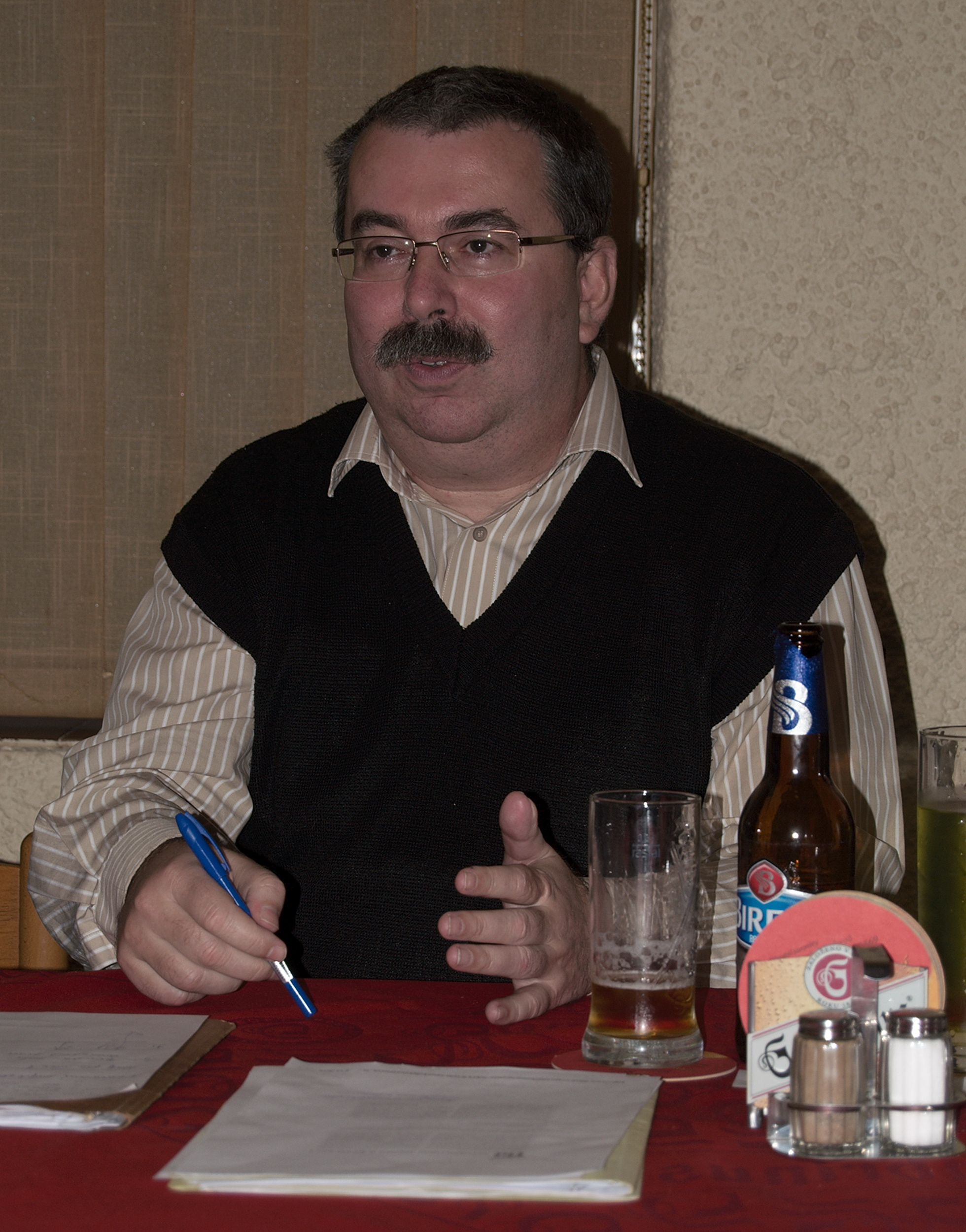 Ing. Jaroslav Krábek, chairman of the Moravian National Community